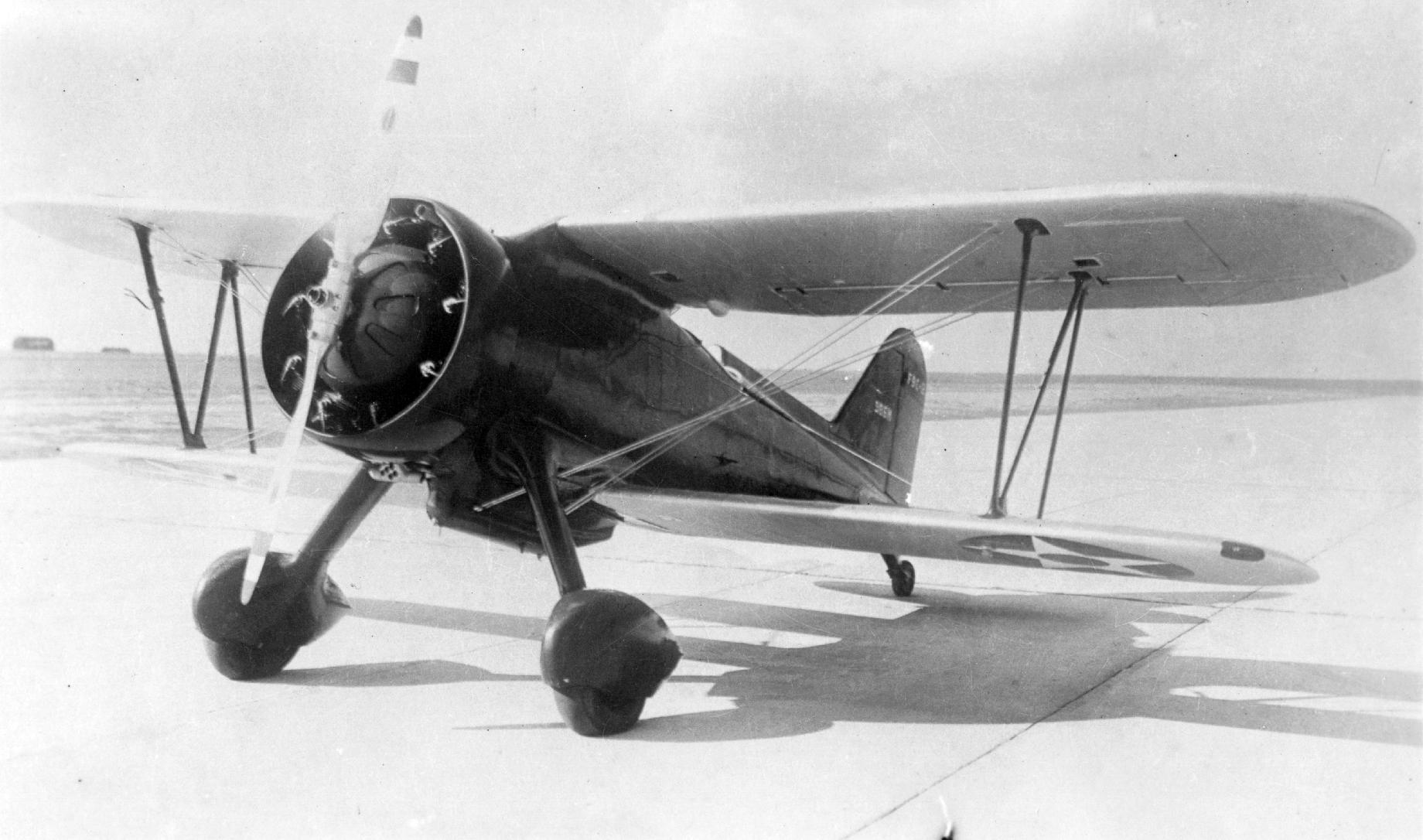 The Curtiss XF9C-2 "Sparrowhawk" prototype.